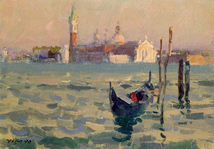 small landscape painting of venice, italy